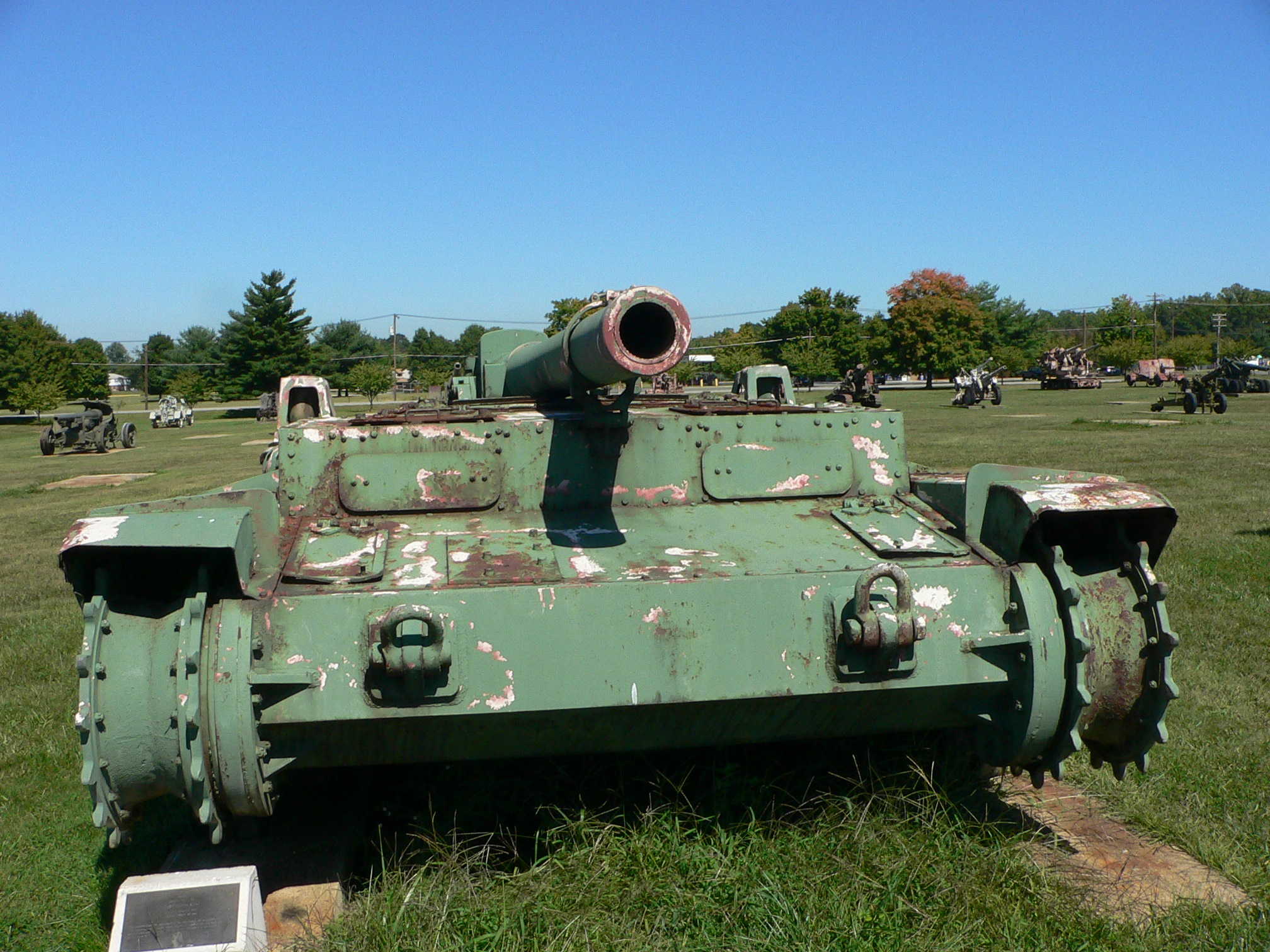 Picture taken by myself, Mark Pellegrini, at the United States Army Ordnance Museum (Aberdeen Proving Ground, MD)